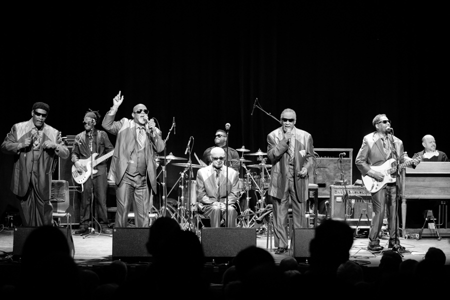 The Blind Boys of Alabama with guest Knut Reiersrud at Cosmopolite. The concert took place on 06. April 2018 in Oslo. Lineup: Eric “Ricky” McKinnie (vocal), Ben Moore (vocal), Paul Beasley (vocal), Jimmy Carter (vocal), Joey Williams (guitar), Austin Moore (drums), Ray Ladson (bass guitar), Peter Levin (keyboard) and Knut Reiersrud (guitar).